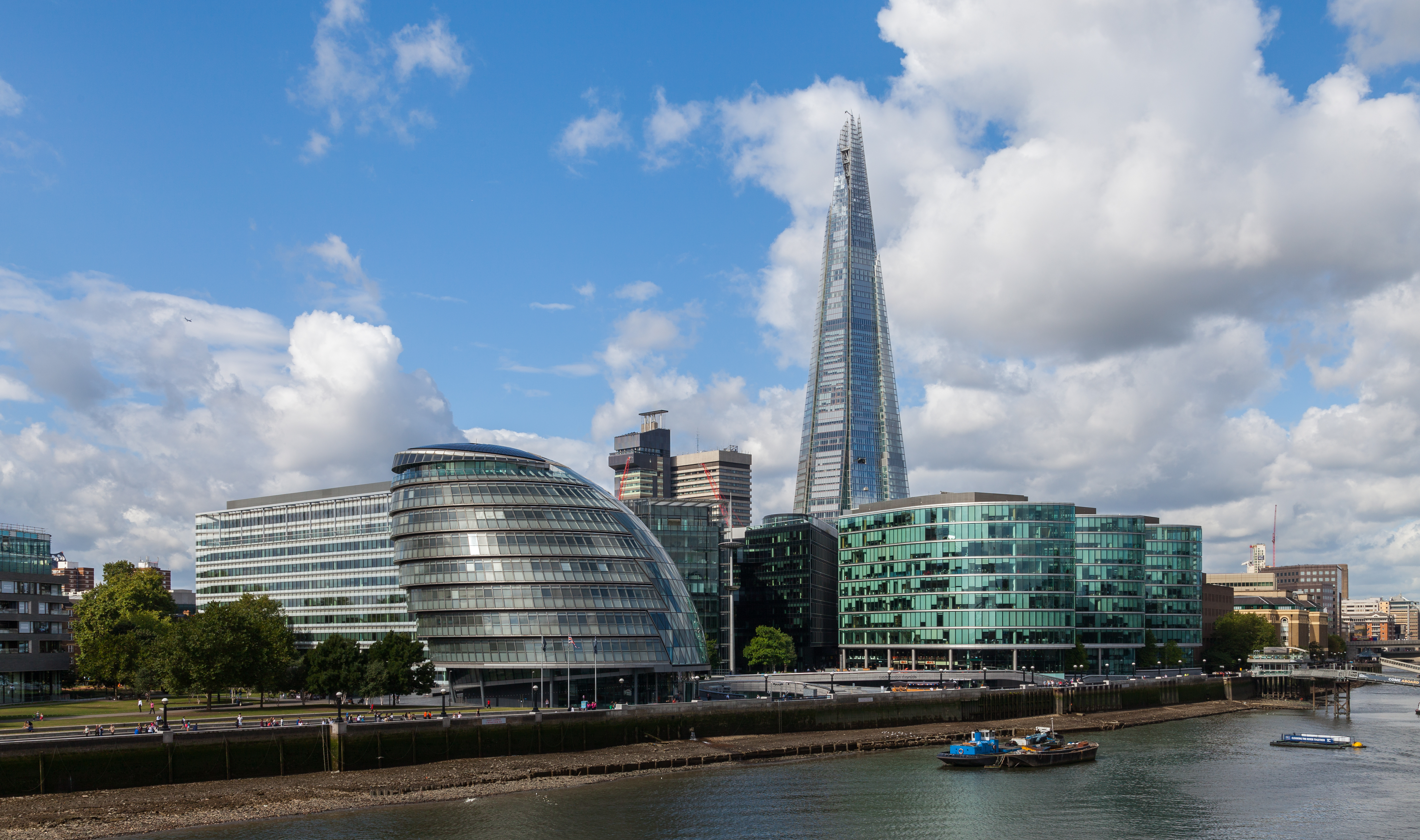 City Hall and Shard, London, England